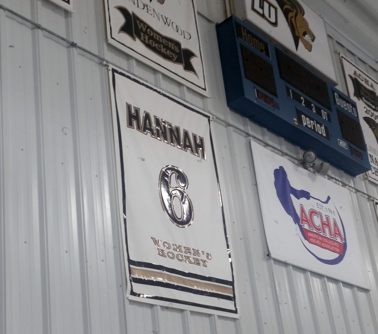 Retired number banner of former Lindenwood hockey player Kat Hannah at Lindenwood Ice Arena in Wentzville, Missouri